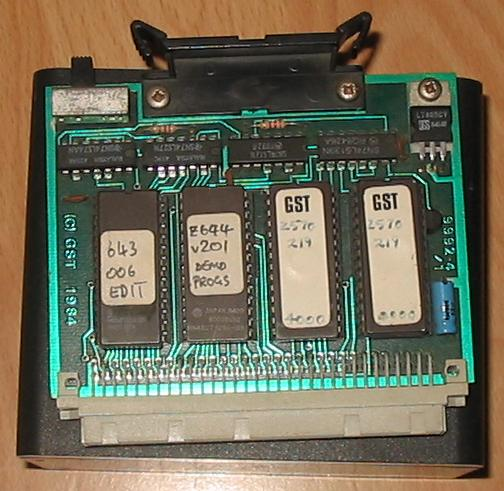 68K/OS ROM